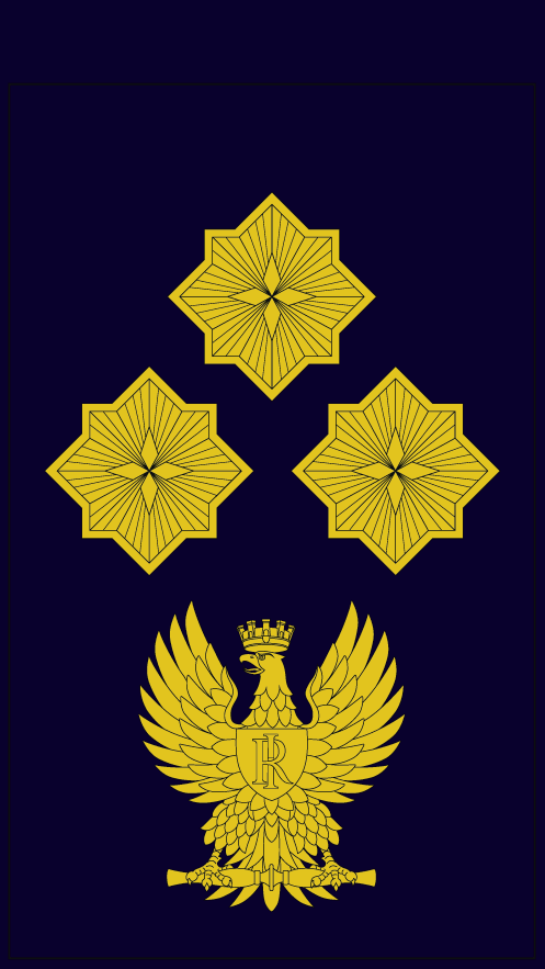 Rank insigna of "Commissario" of the Italian Police.